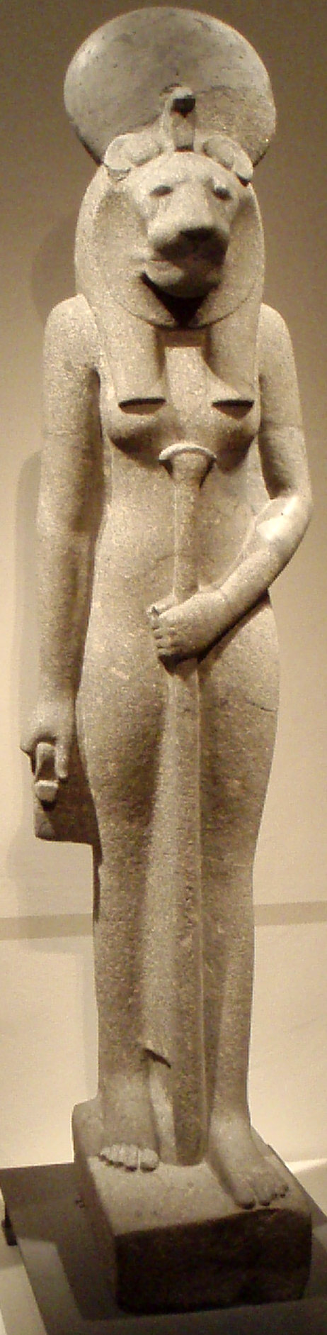 Statue of Sakhmet. New Kingdom, circa 1370 B.C. Image taken at the Altes Museum, Berlin (part of the Ägyptisches Museum Berlin collection).